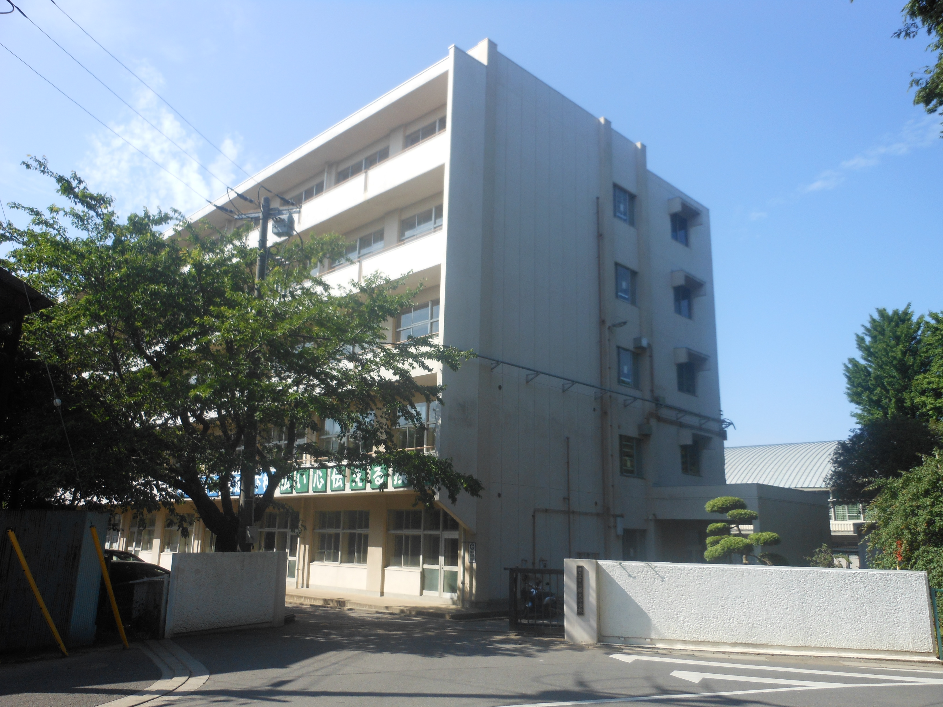 This is the Kamagaya city third junior high school in Chiba, Japan.